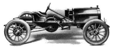 1906 Mason 24 HP 'Goat' racer. Modified from a stock automobile by Fred S. Duesenberg for hill climbs and track races by lowering the seat and steerin column. For a time, this was the fastest two cylinder car in the USA.